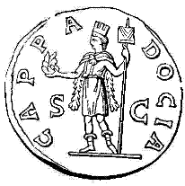 738 woodcuts illustrating the work A Dictionary of Roman Coins, Republican and Imperial (1889). To identify a coin please look at the filename to identify a page number, and check the Dictionary on numiswiki